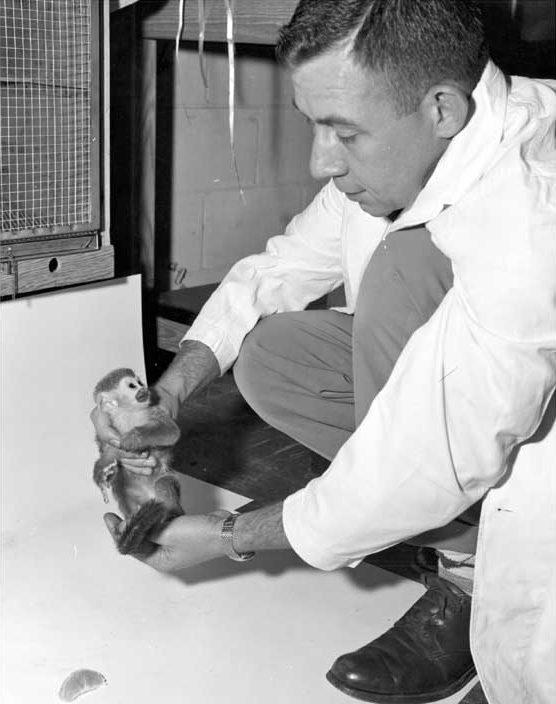 JUPITER Missile AM-13 was fired, marking the first successful flight of a JUPITER IRBM incorporating the tactical ballistic shell configuration. Also significant was the fact that the missile carried a squirrel monkey named Gordo over IRBM distance, contributing highly useful data for Army and Navy medical research into space flights. Even though Gordo made the flight with no known adverse affects, the monkey could not be recovered because the nose cone's flotation device failed.